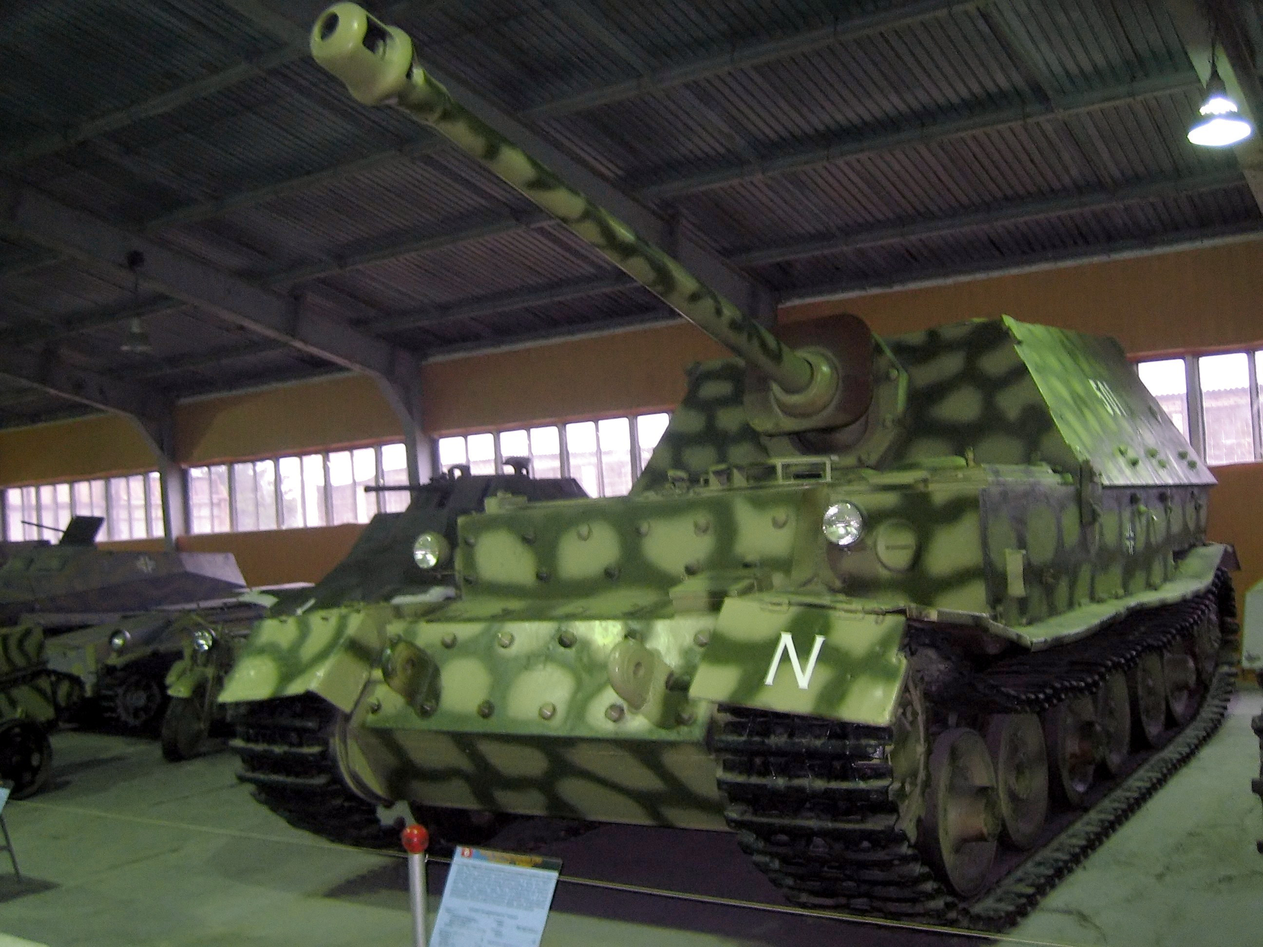 Panzerjäger Tiger (P) Ferdinand (Sd.Kfz. 184), on display in Kubinka.